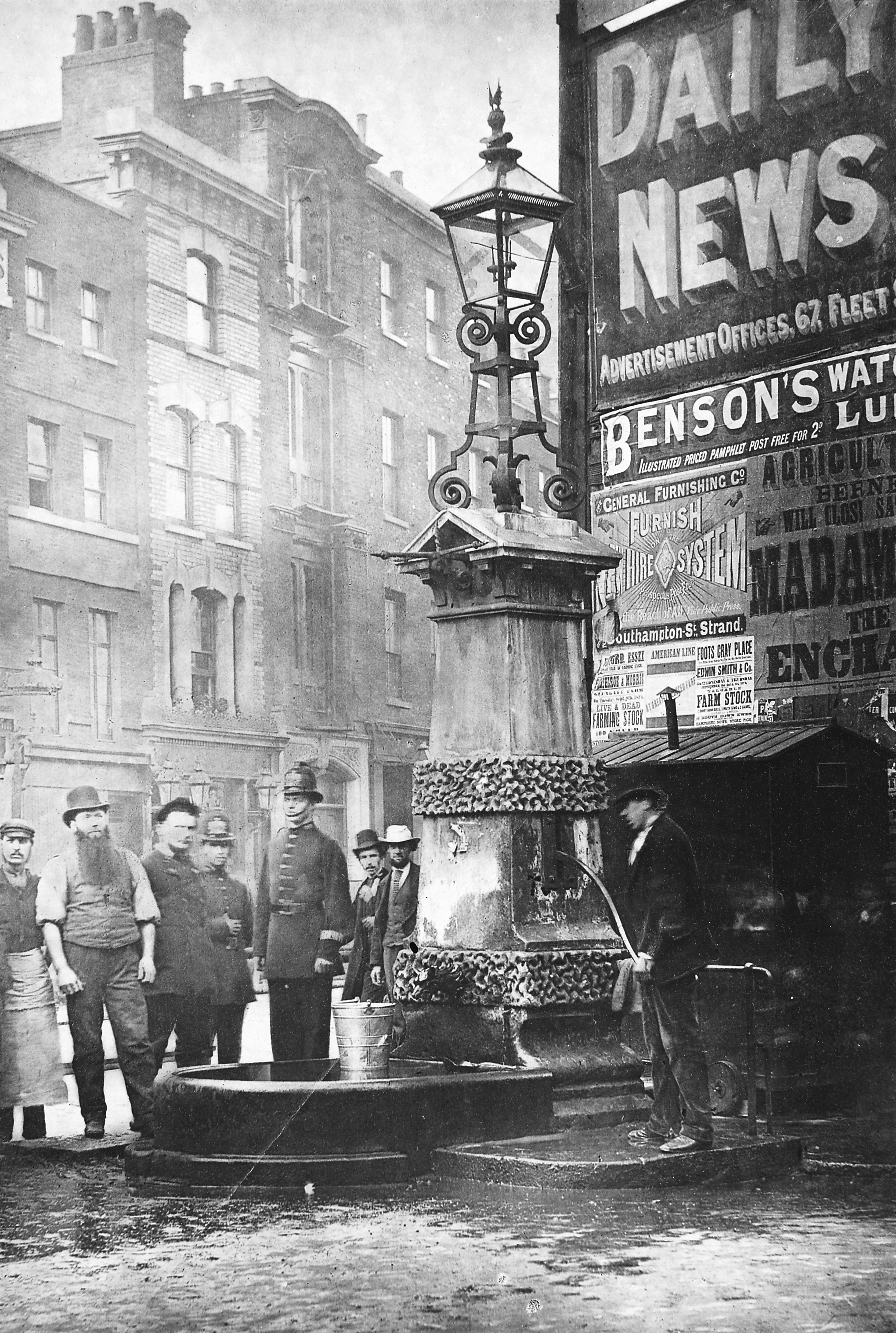 The Aldgate Pump in 1874. Wellcome Images Keywords: Cholera; Public Health